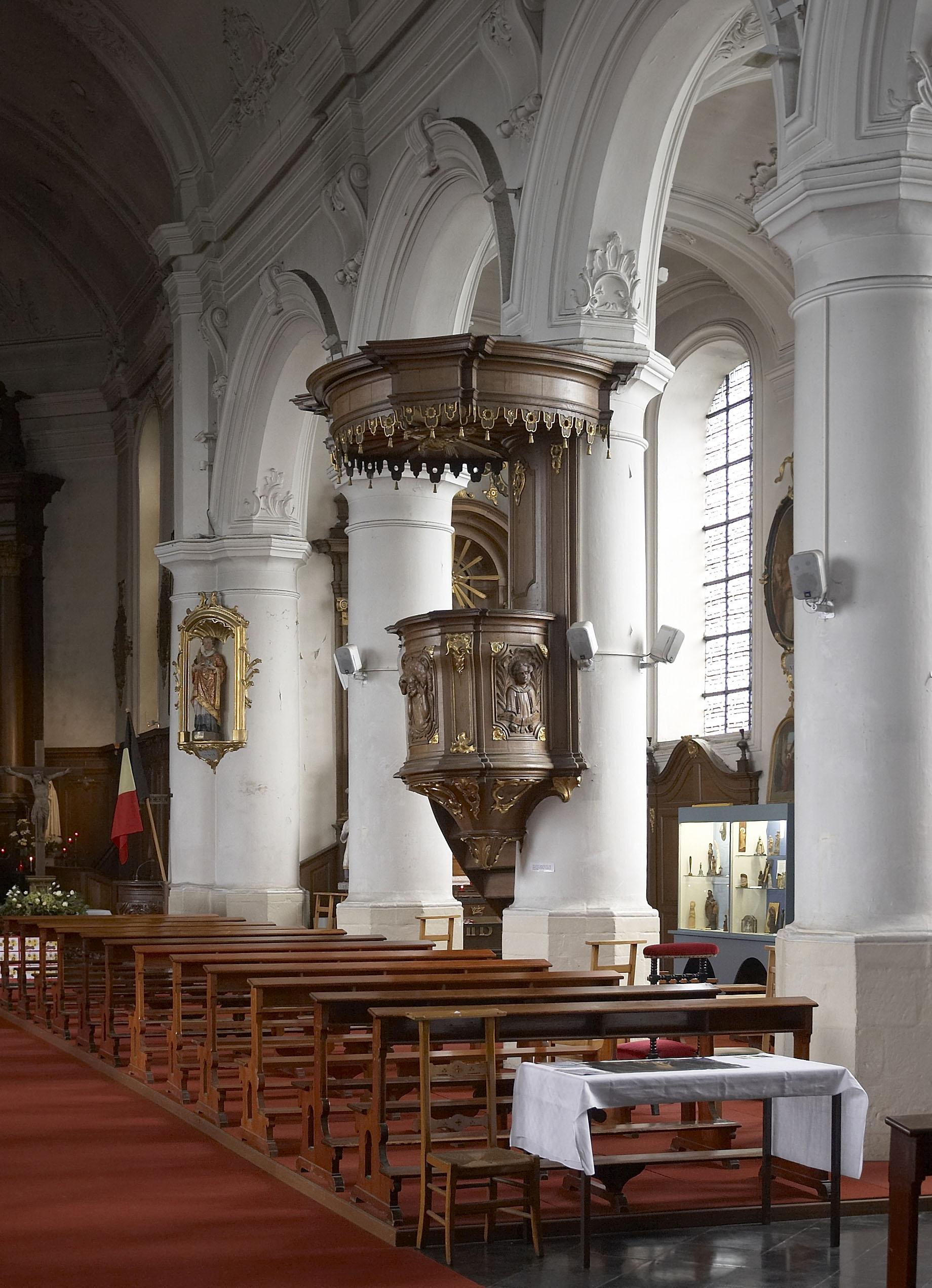 Saint-Étienne church in Ohain (part of Lasne) in Belgium